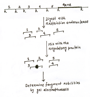 gel retardation